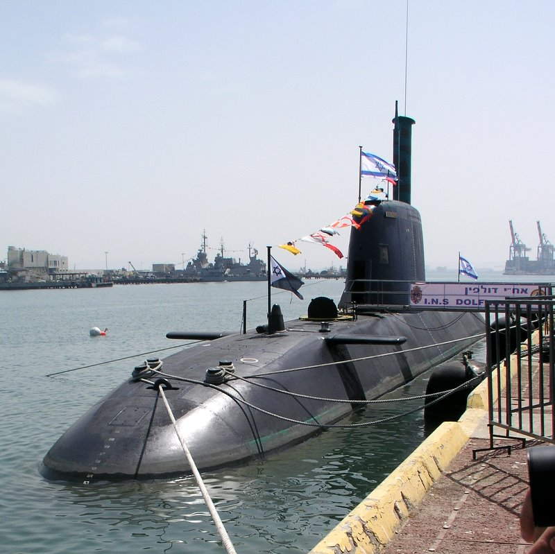 i.n.s. dolfin